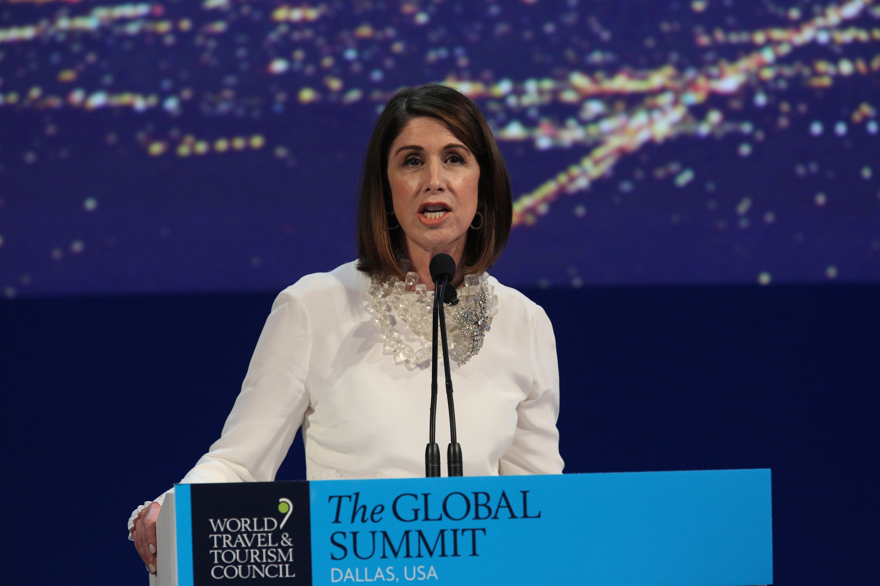 Karen Katz, President & CEO, Neiman Marcus World Travel & Tourism Council Flickr images